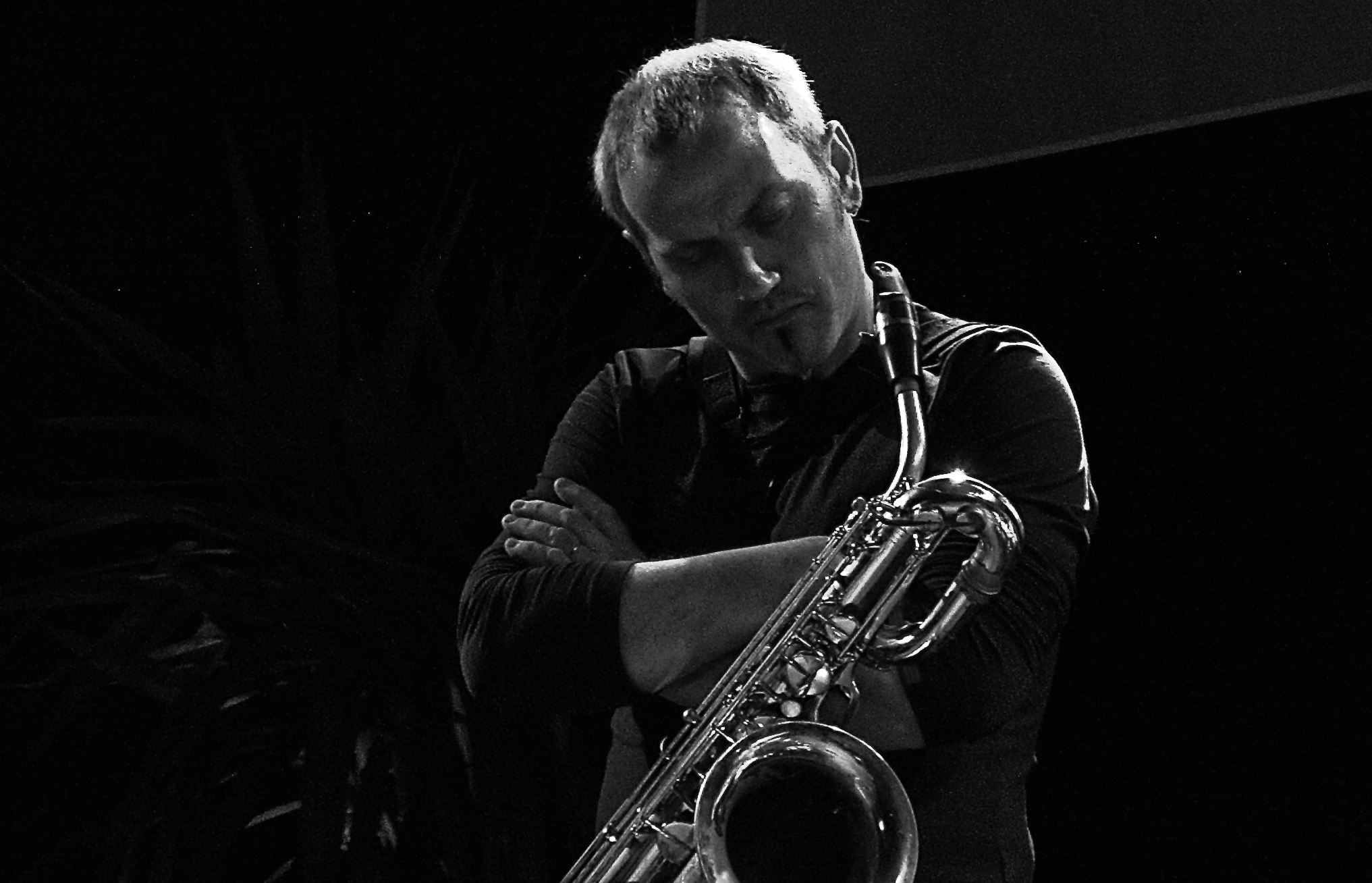 François Corneloup from Ursus Minor, taken in Luz' jazz festival, France, summer 2005.